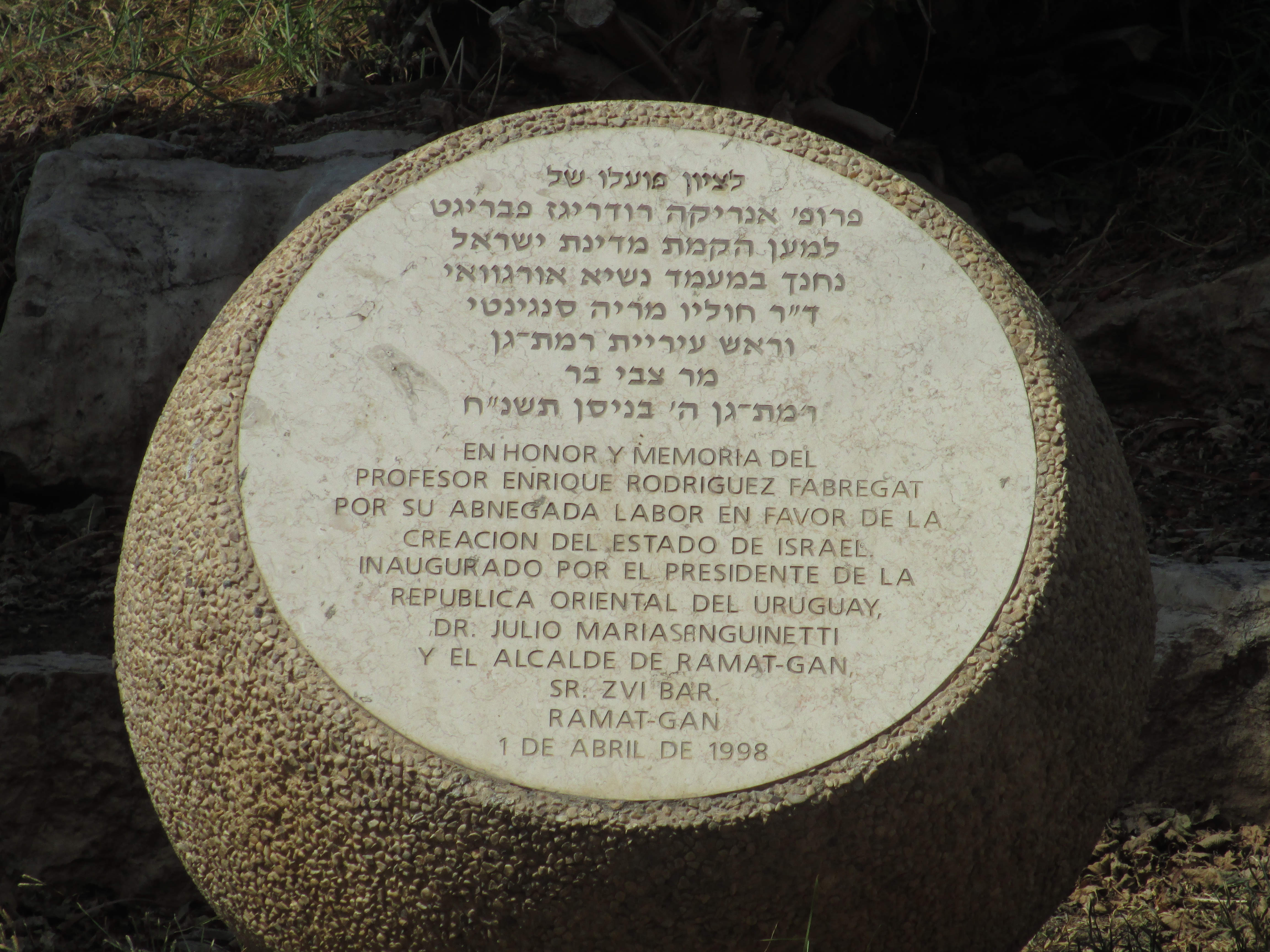 Fabregat memorial in Ramat Gan